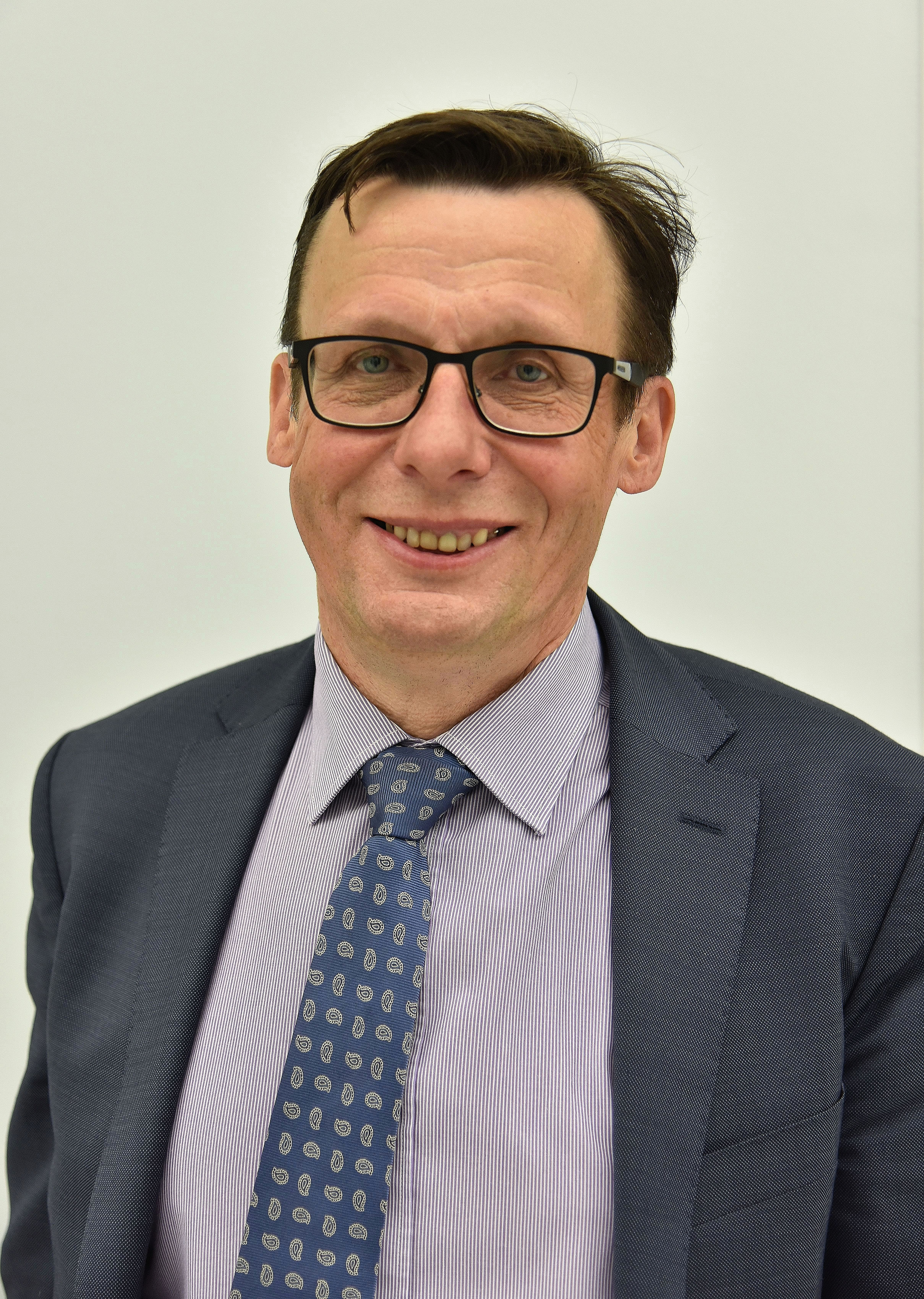 Polish MP Marek Ast in the Sejm